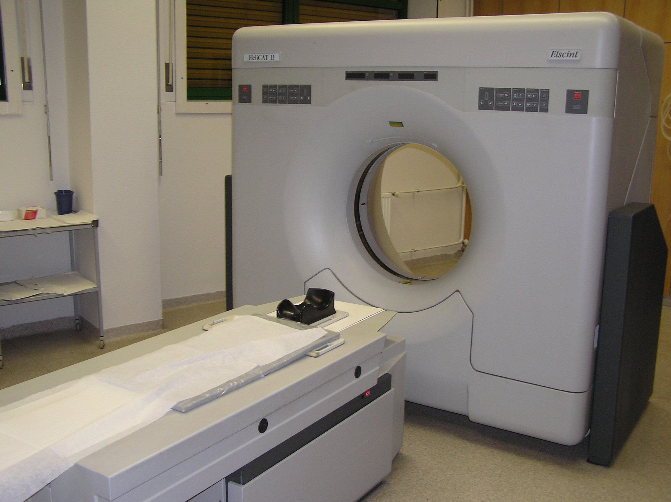 Computed tomography in FN Motol, Prague, 2006-12-01.